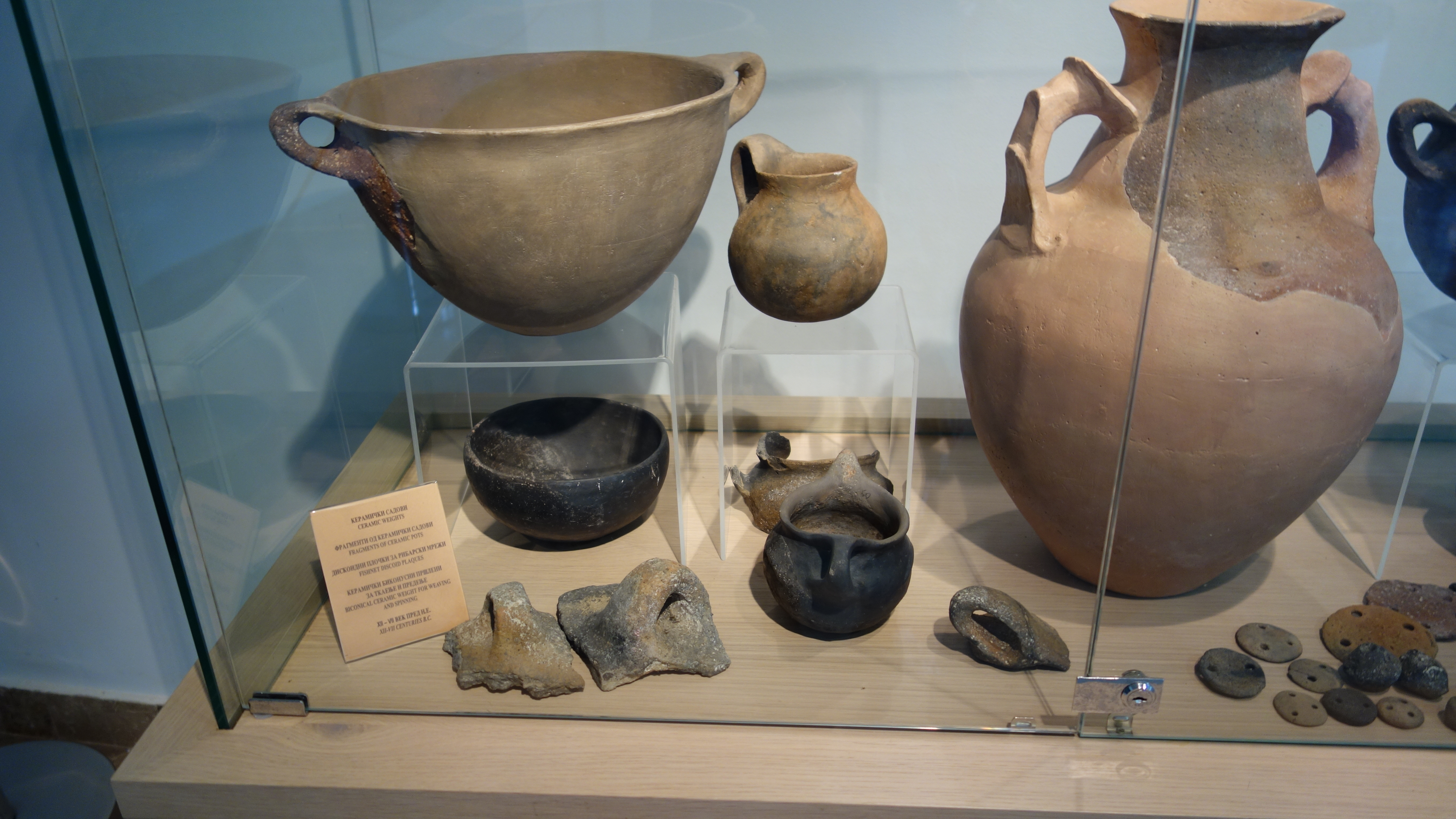 Museum on water, Ohrid Lake, Macedonia